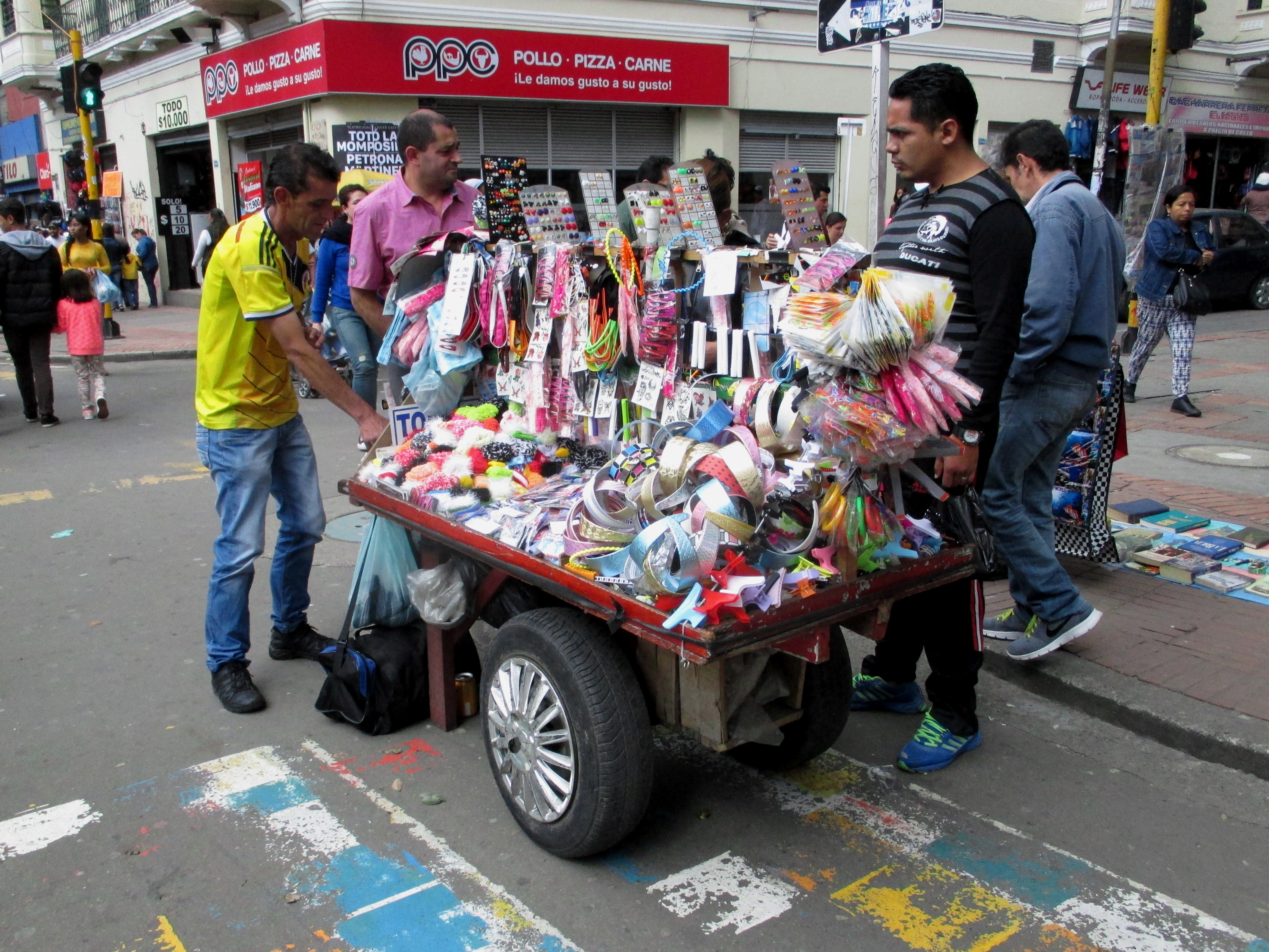 Bogotá